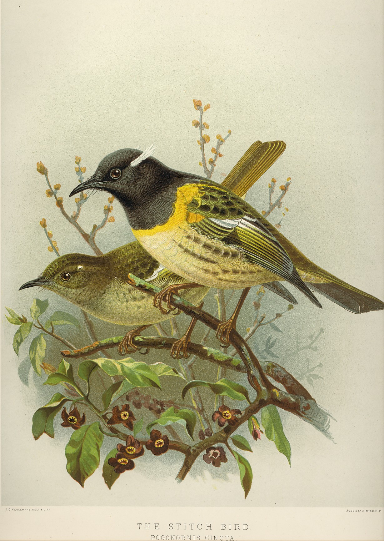 A male and female Stitchbird/Hihi (Notiomystis cincta) .